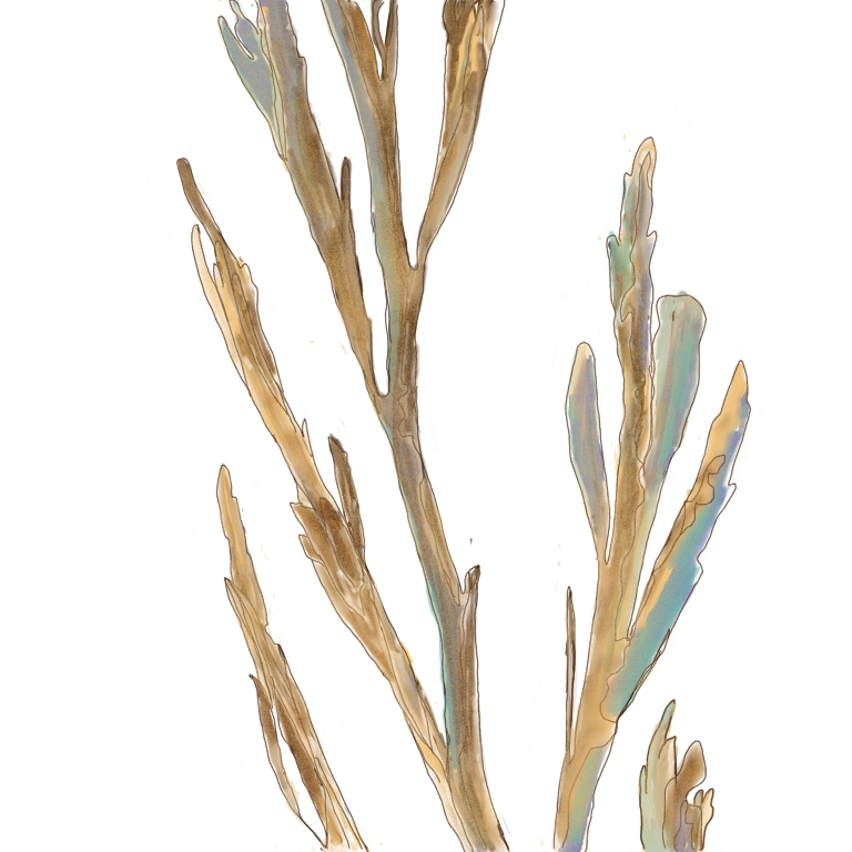 Seaweed